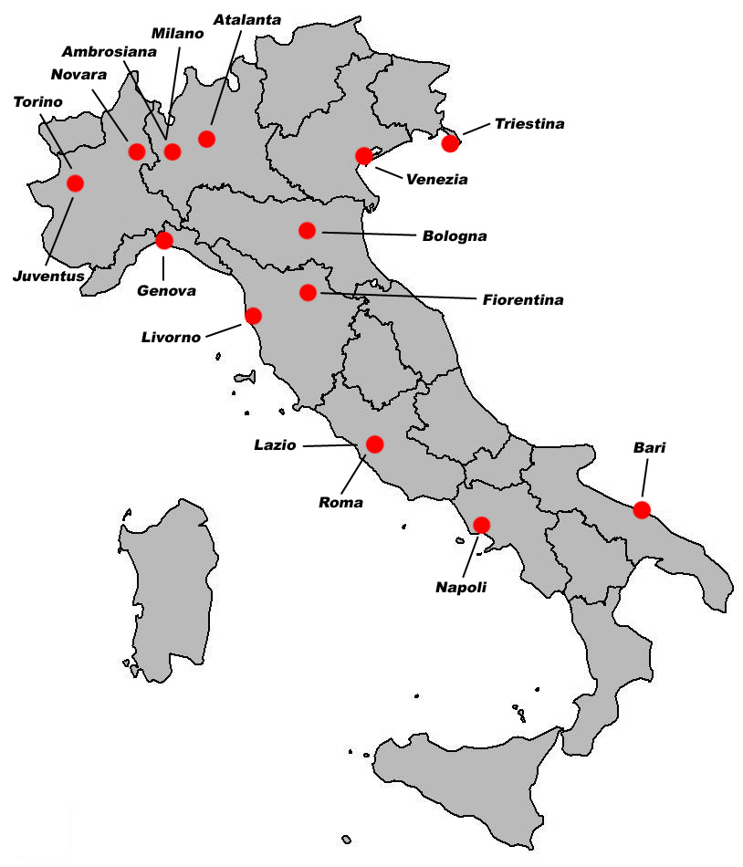 Serie A 1940-41 team locations